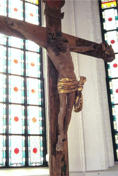 Sankt Mikkels Kirke, Slagelse